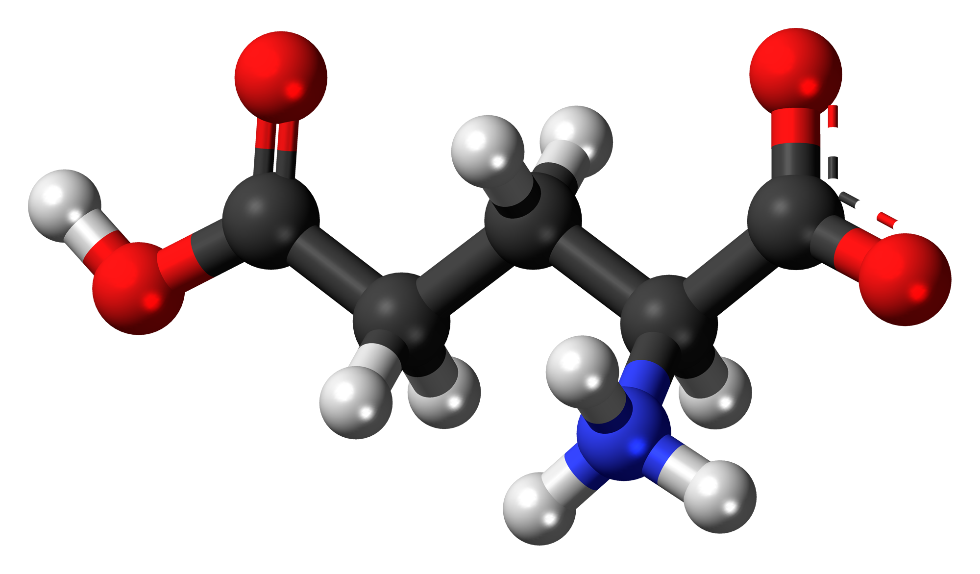 Ball-and-stick model of the glutamic acid molecule, one of the 20 amino acids used to build proteins. This image shows the L isomer in zwitterionic form. Colour code: Grey: Carbon, C Hydrogen, H: white Oxygen, O: red Nitrogen, N: blue